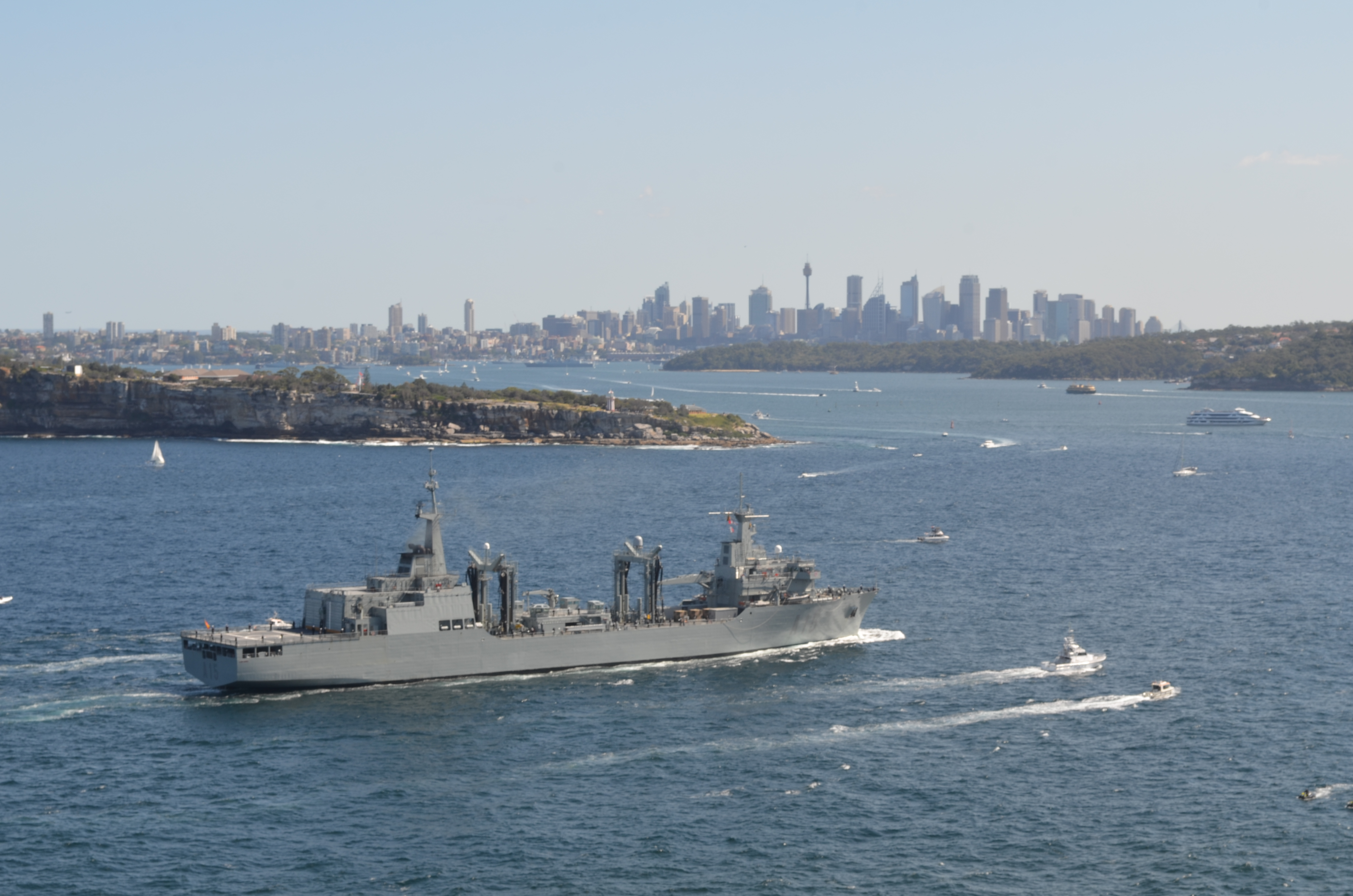 Photographs taken during day 2 of the Royal Australian Navy International Fleet Review 2013. The Spanish replenishment ship Cantabria entering Sydney Harbour as part of the warship fleet.